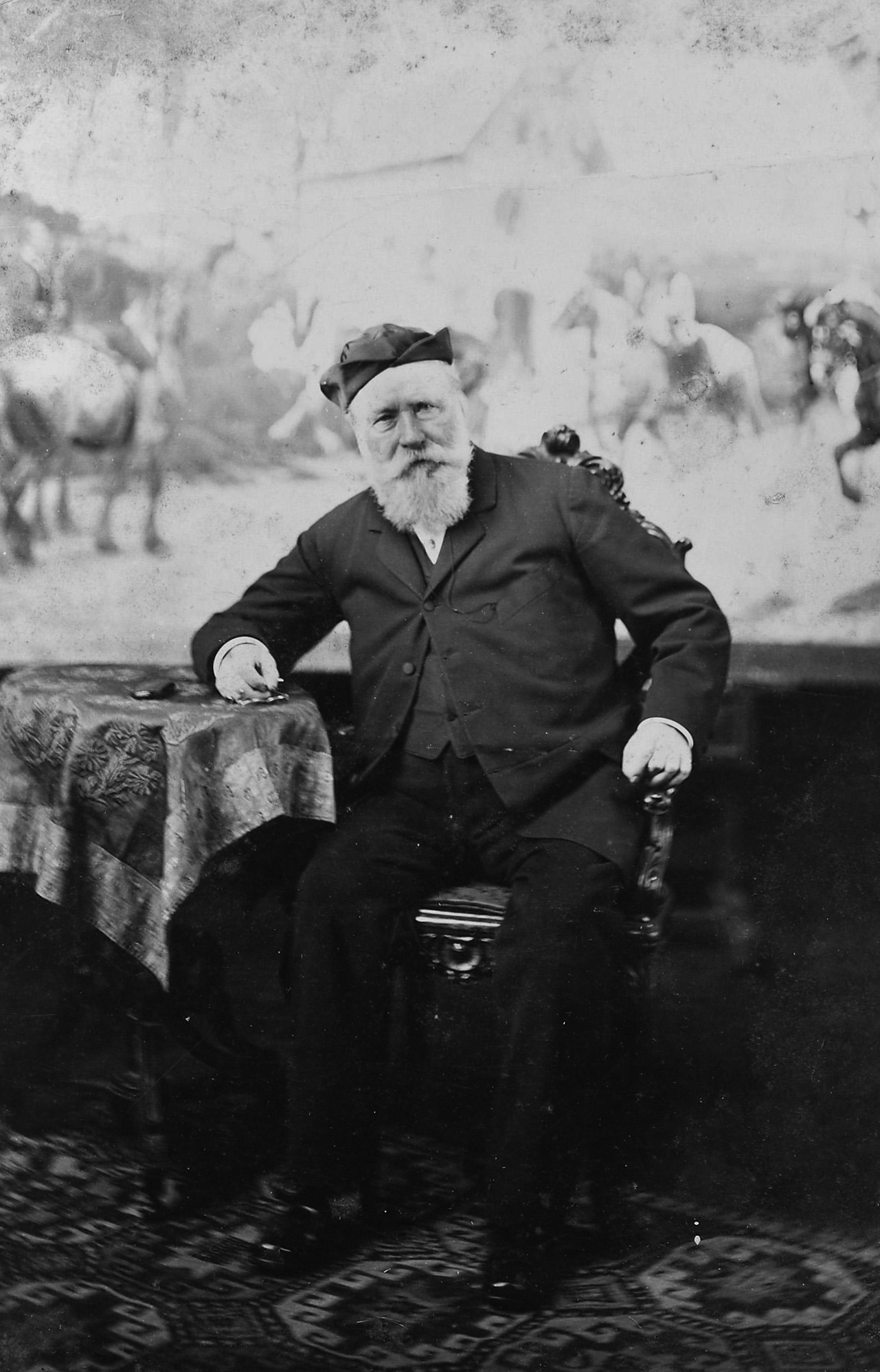 Carl von Blaas, self-portrait